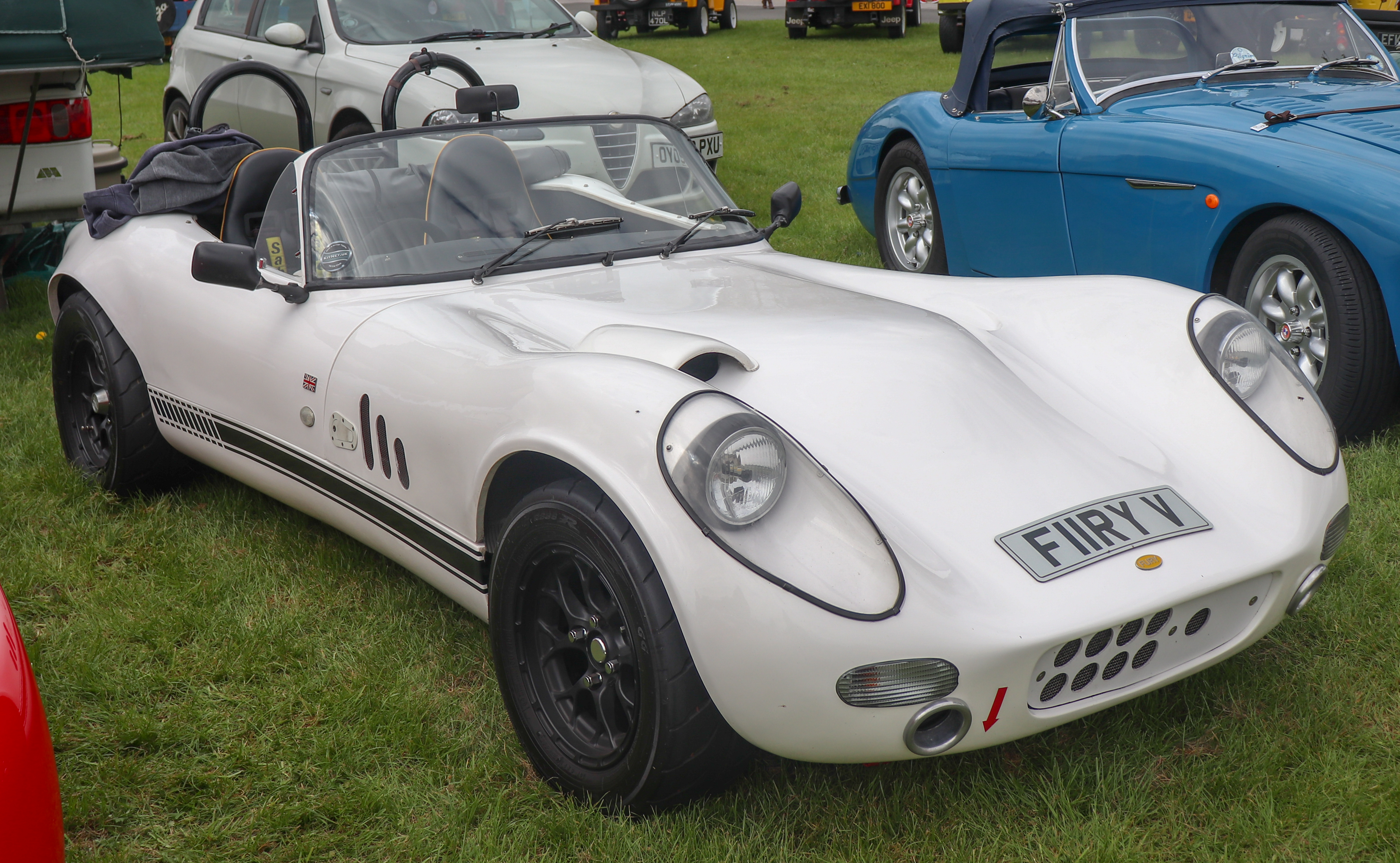 2015 Fisher Fury Spyder 2.0 Front Taken at the Stoneleigh National Kit Car Motor Show 2019